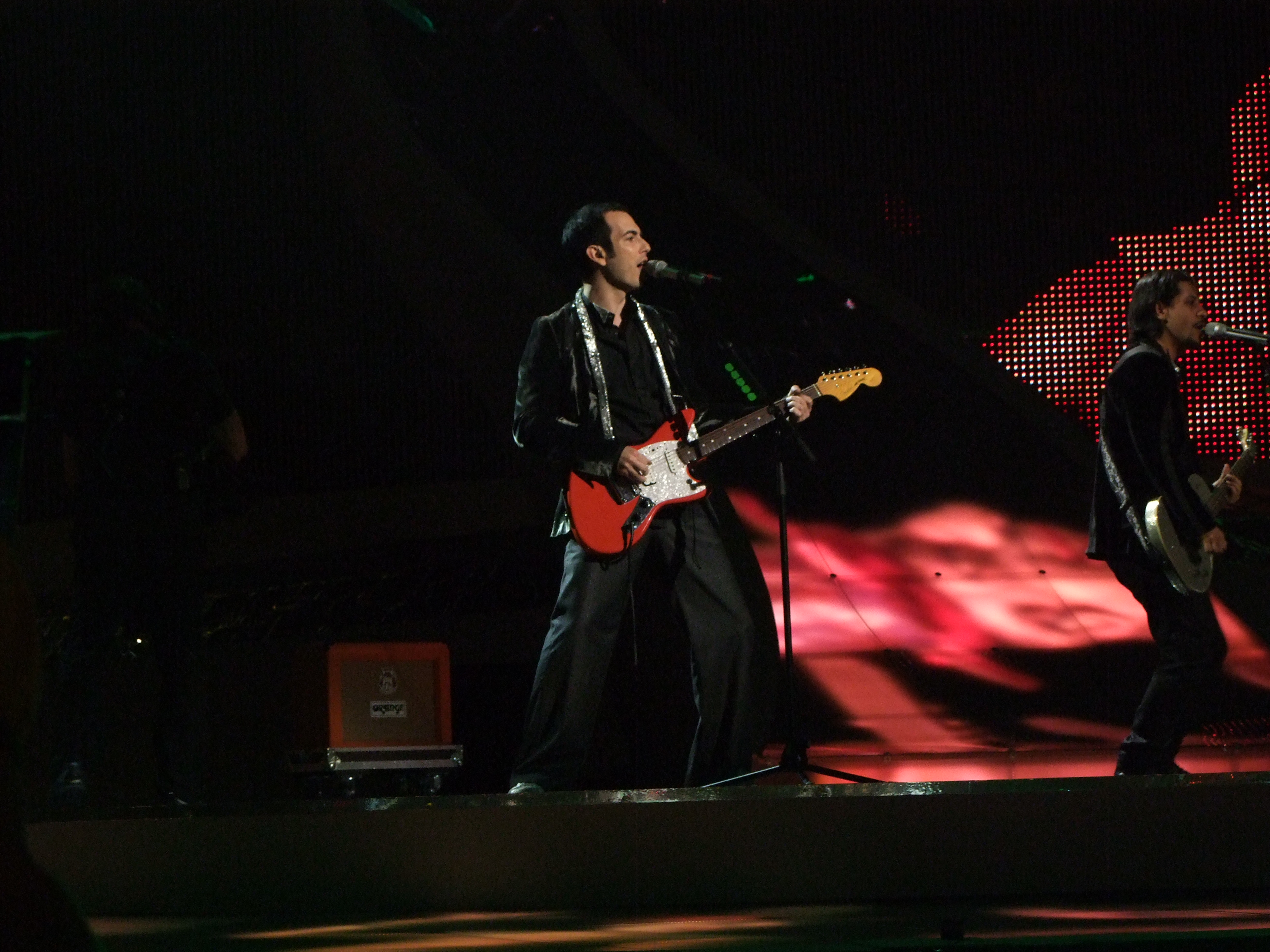 Turkish alternative rock band Mor ve Ötesi in the 2nd semi-final at the Eurovision Song Contest in Belgrade, Serbia.